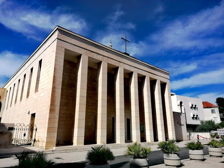 Chruch and monastery of "Gospe od Zdravlja", the famous Marian sanctuary in Split. Photo is taken from the "Trg Gaje Bulata" square, in front of the building of the Croatian National Theater.